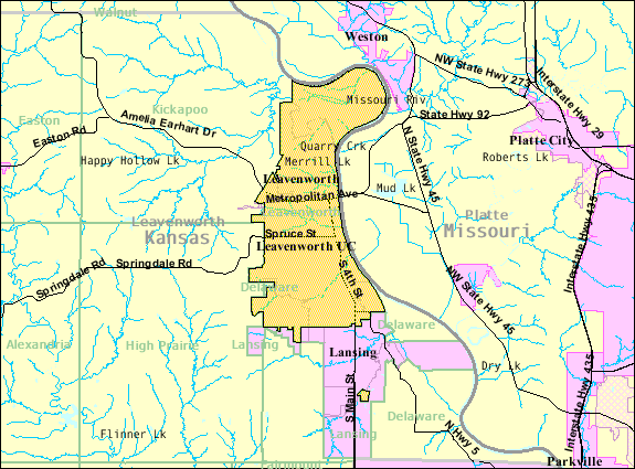 U.S. Census Reference Map of Leavenworth, Kansas